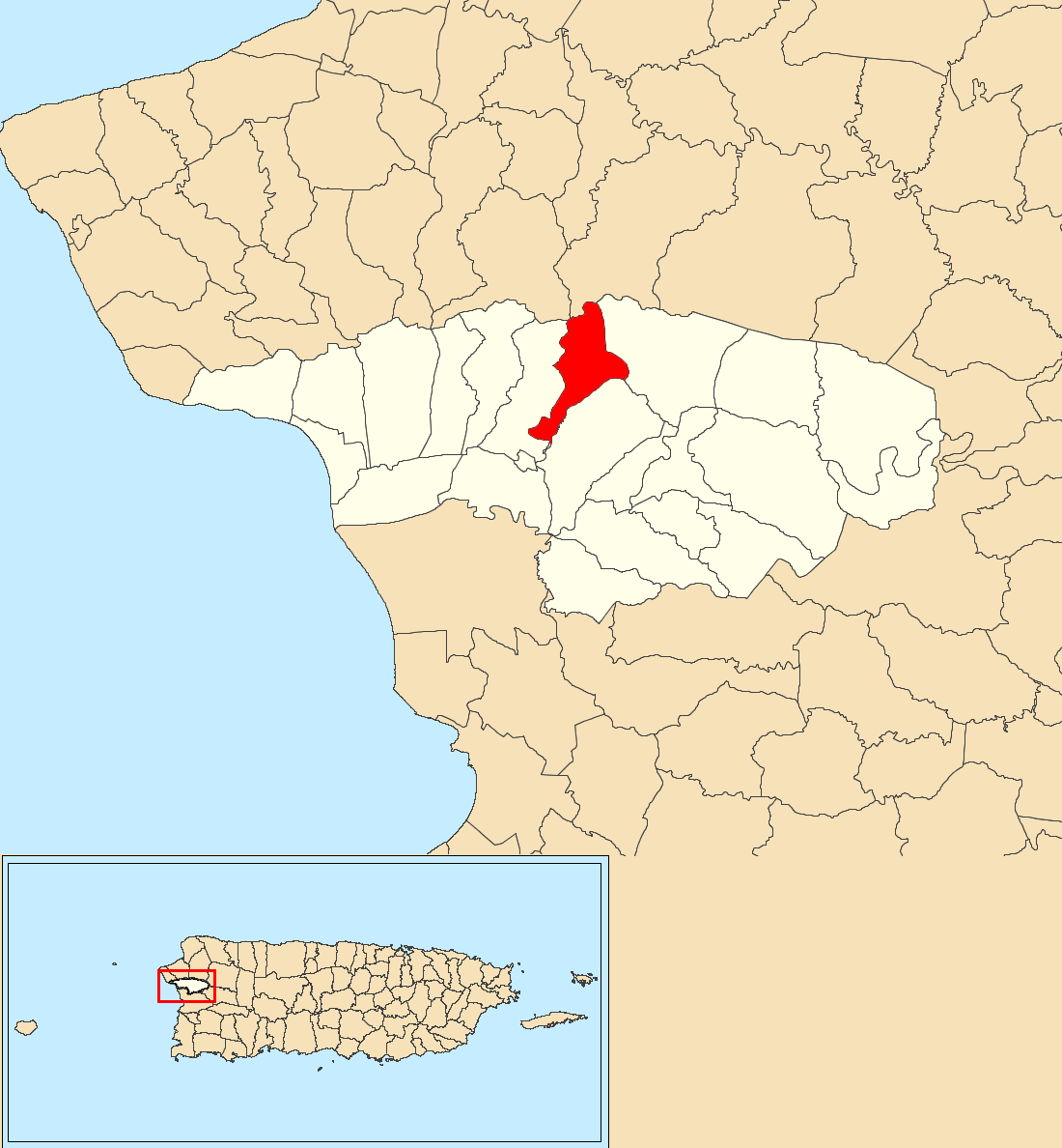 Dagüey, Añasco, Puerto Rico locator map